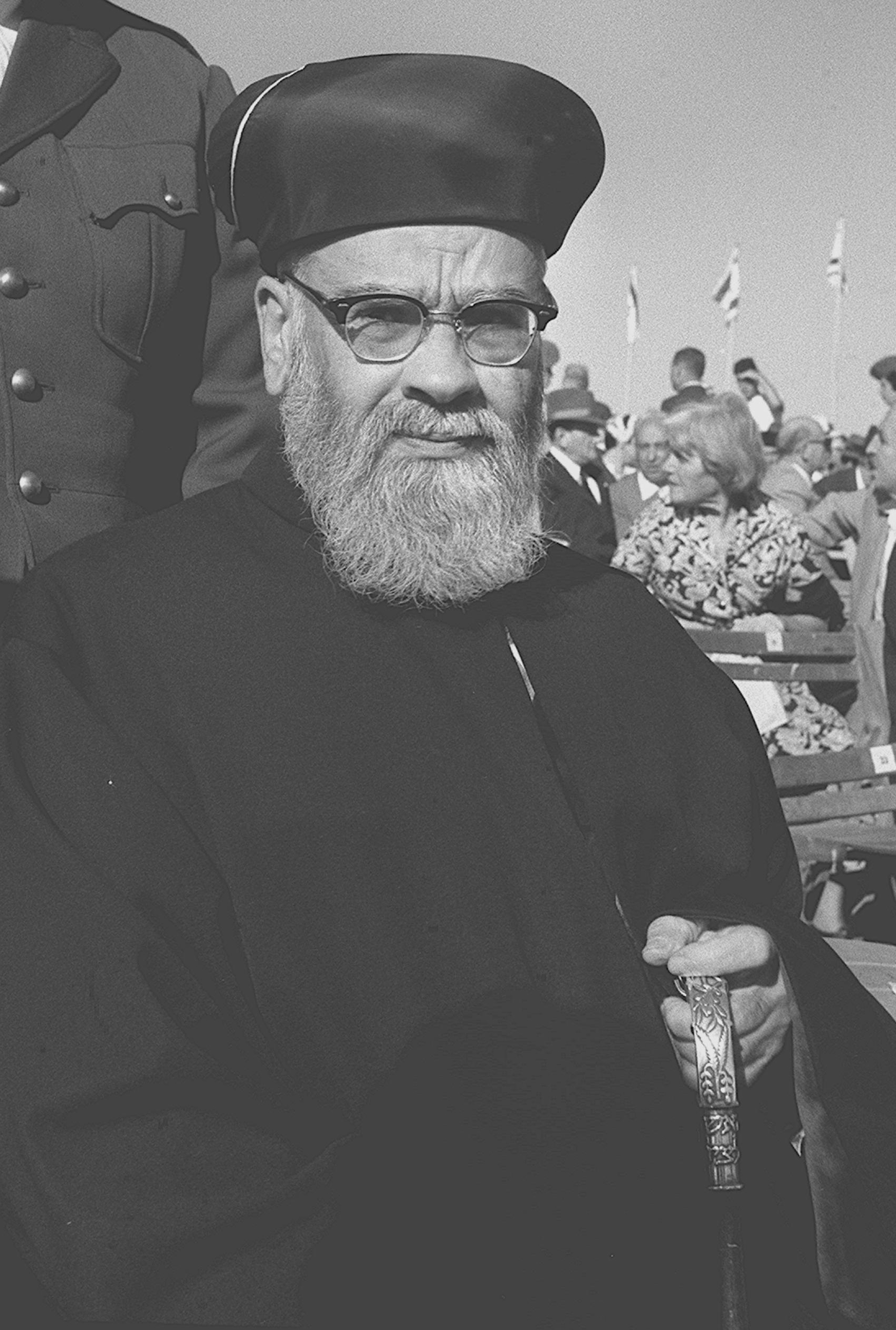 Yitzhak Nissim, Chief Sefaradic Rabbi of Israel